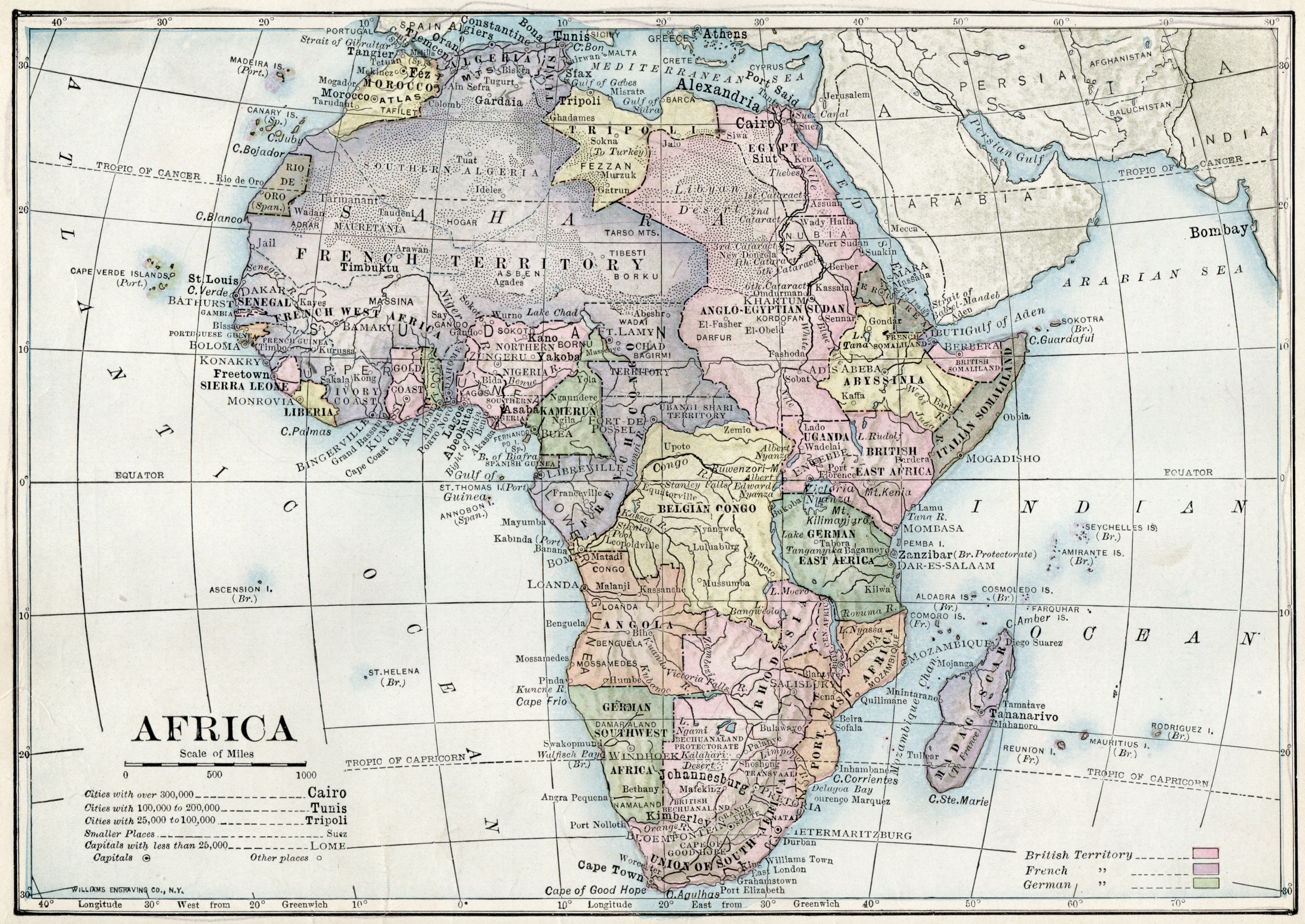 1916 map of Africa depicting political boundaries of that time period.